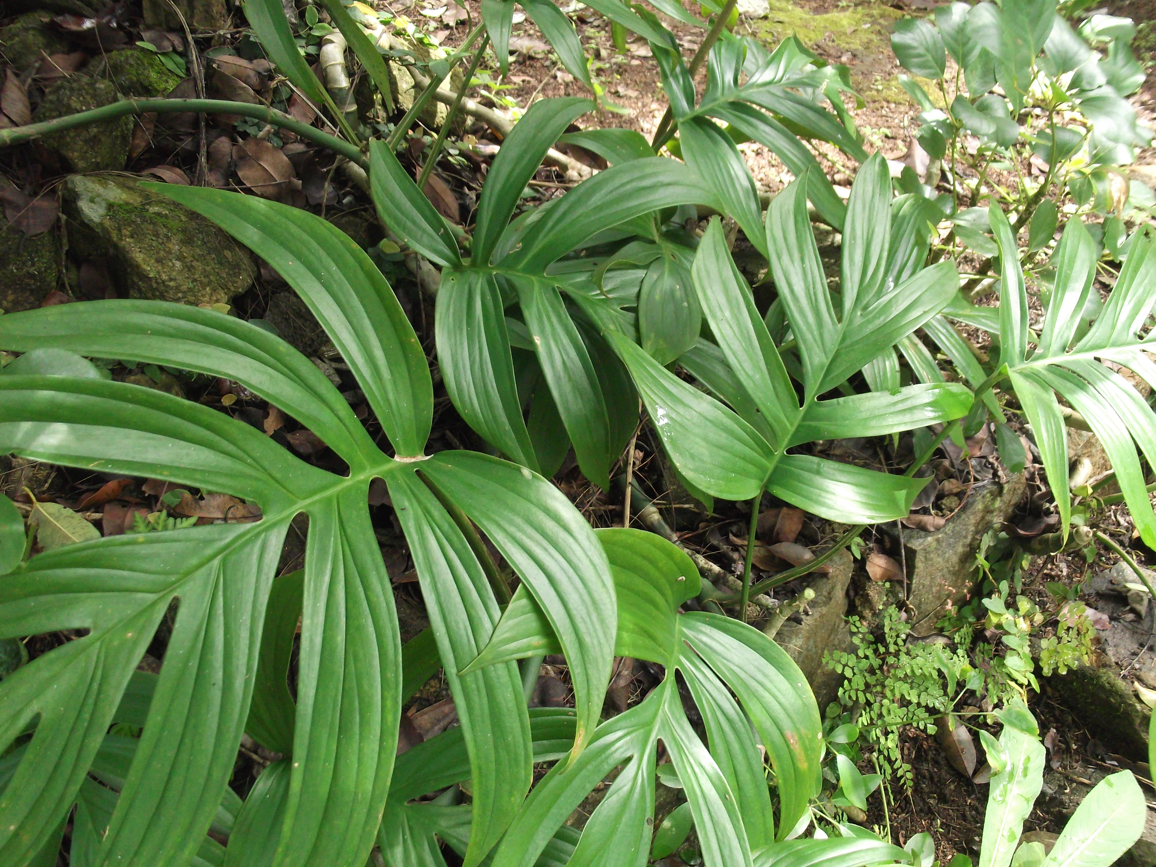 Climber,sending out aerial roots,deeply pinnatifid.